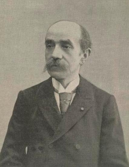 Samuel Rosenthal (1837-1902), polish-french chess master